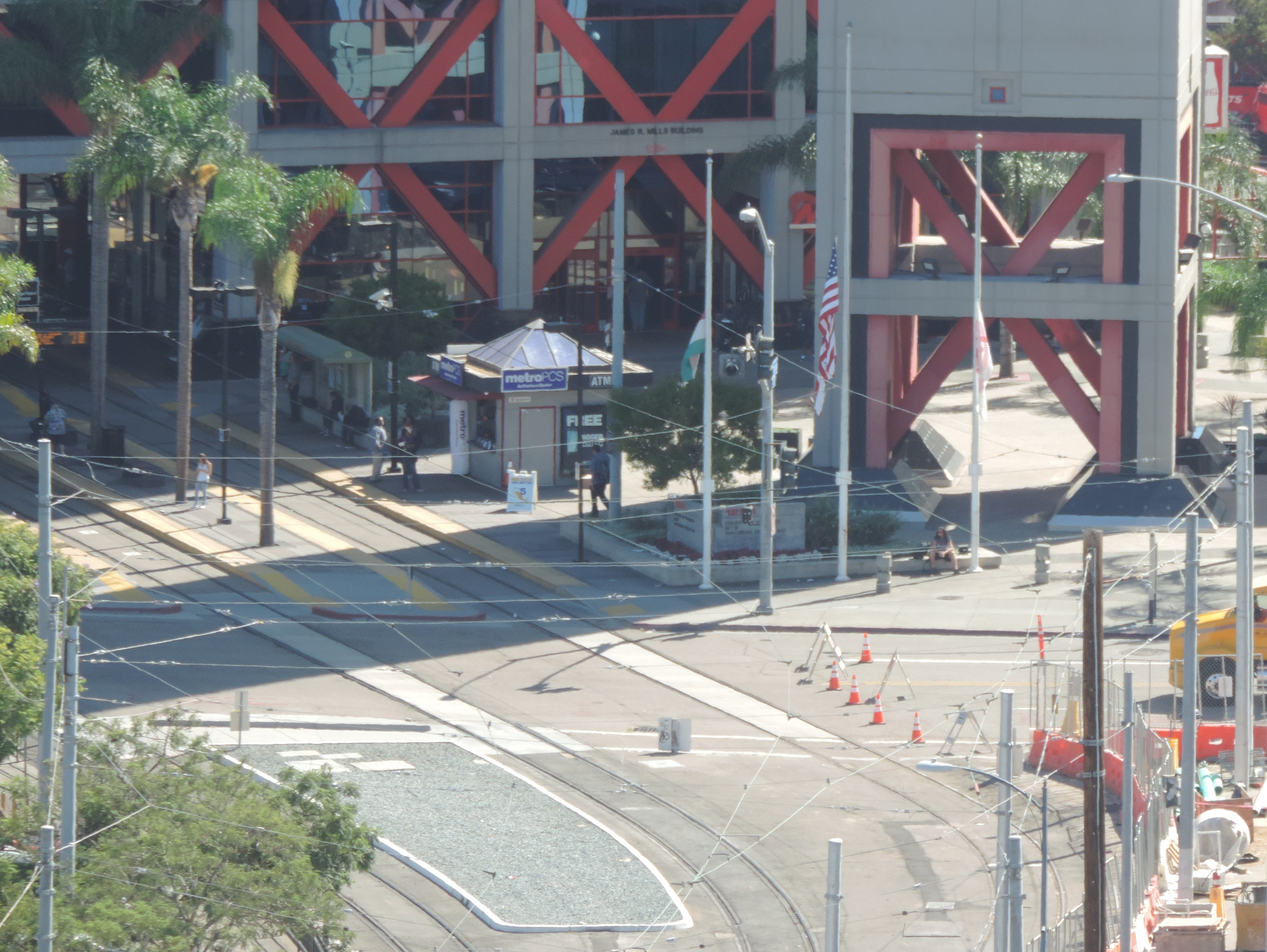 Looking south, zoomed, at 12&Imperial Transit Center trolley stop, from 9th Floor terrace of SDPL on a sunny early afternoon.